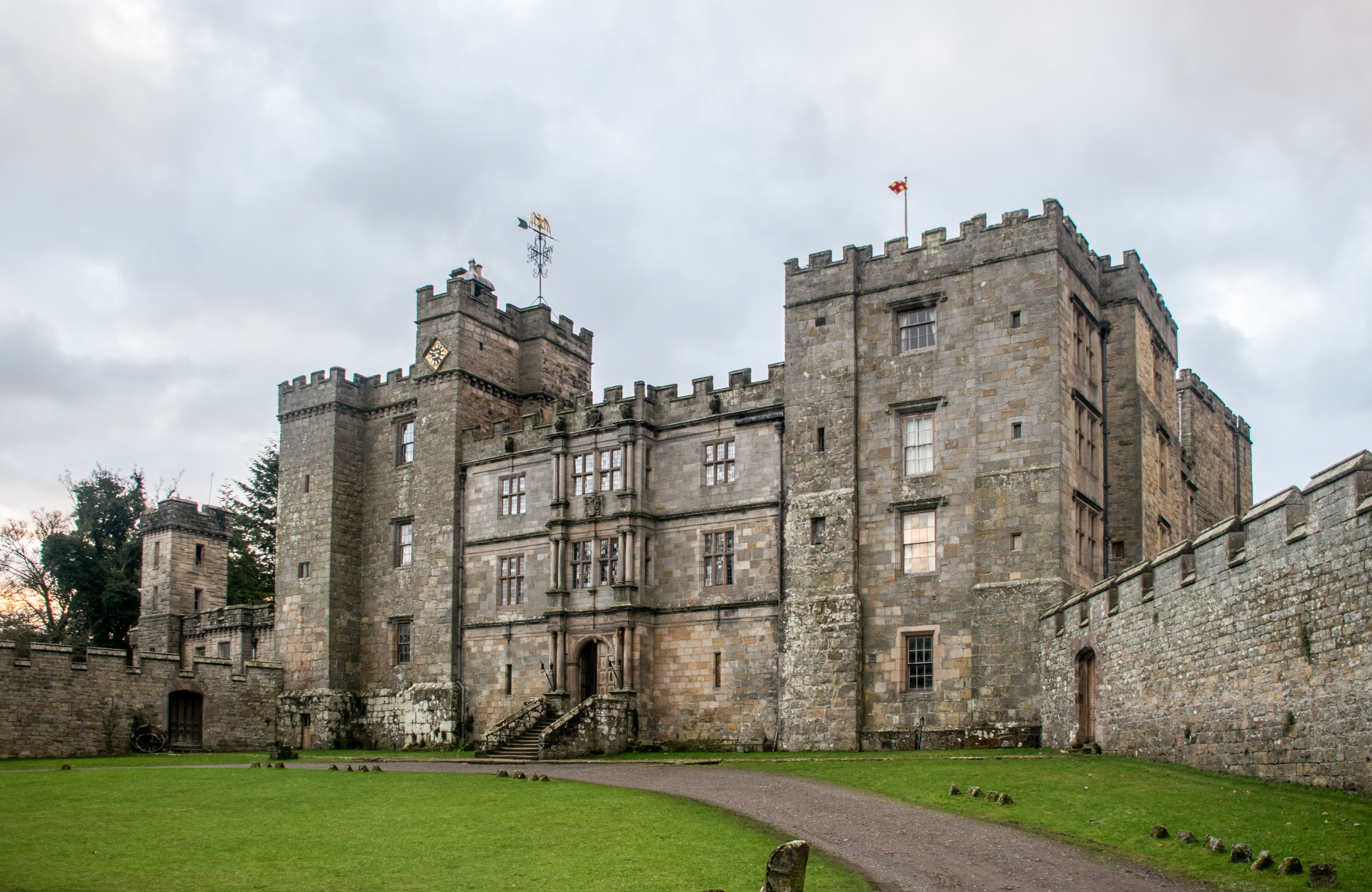 North front of [Chillingham Castle , Northumberland, England from the carriage drive